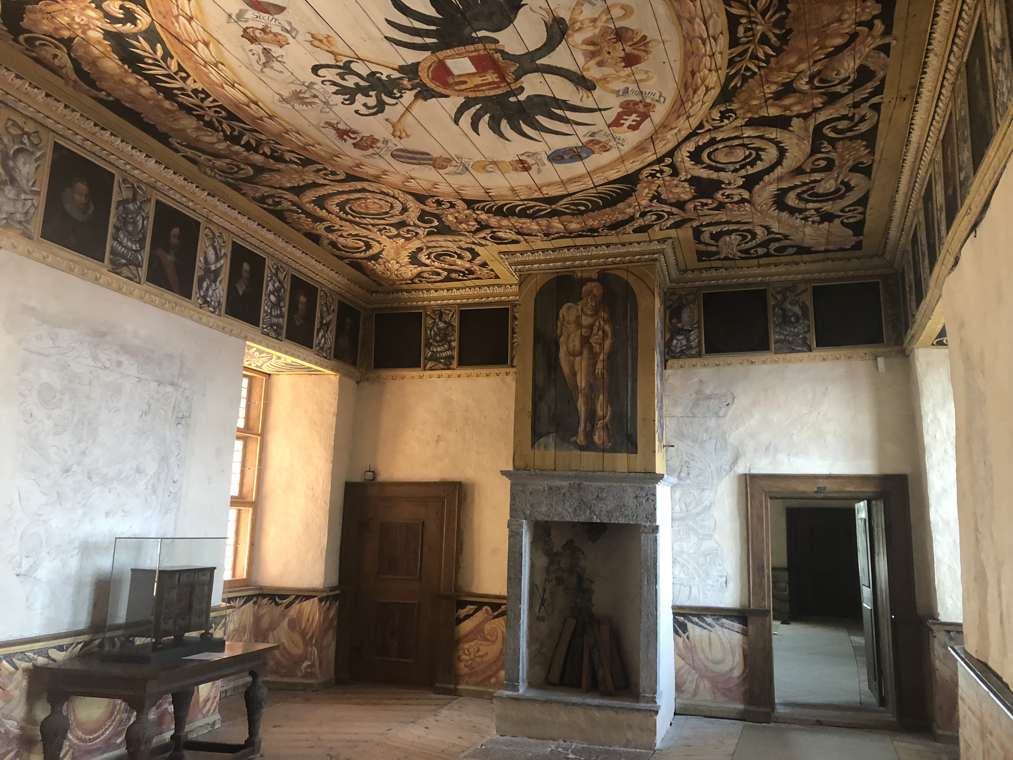 Interiors of the Läckö Castle in Lidköping Municipality, situated on the Lake Vänern in mid-western Sweden. The Castle is built from 1298 onwards,.